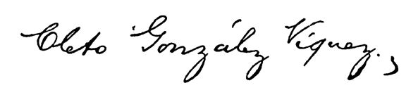 Cleto González Víquez's signature, President of Costa Rica (1906-19109 (1928-1932)